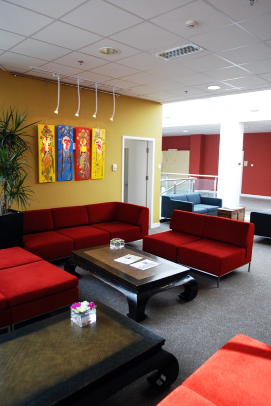 western academy of beijing_HS_common area